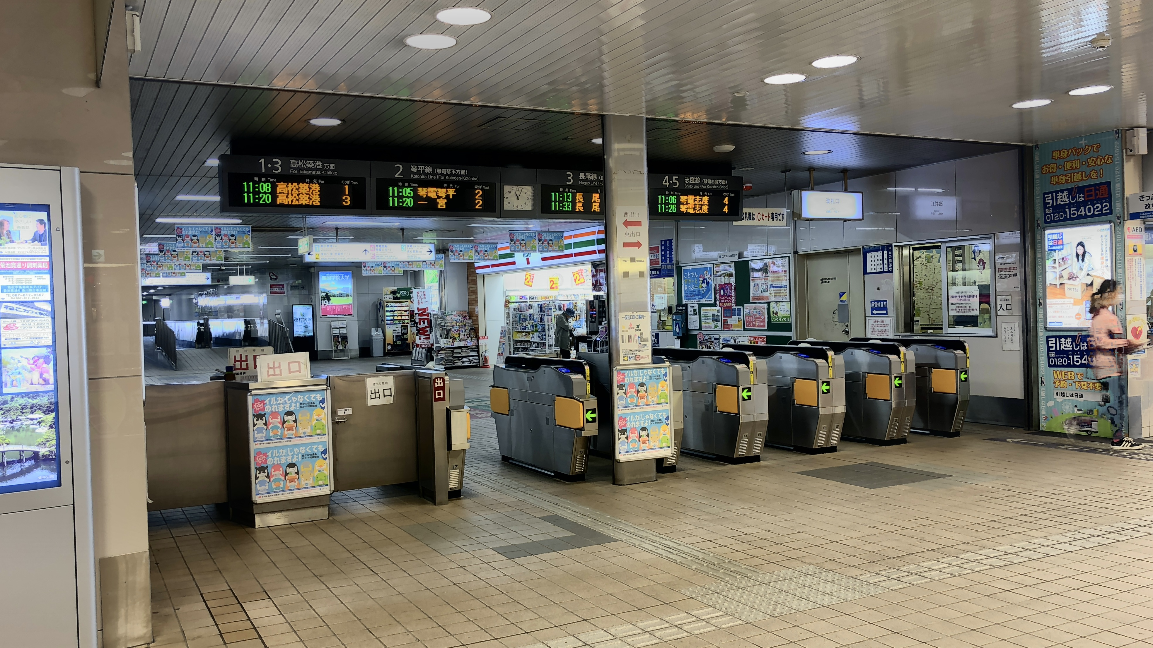 Takamatsu Kotohira Electric Railroad Kawaramachi station ticket barriers in 14, April 2018. Store in the back is "Seven Eleven Kotoden Kawaramachi station".